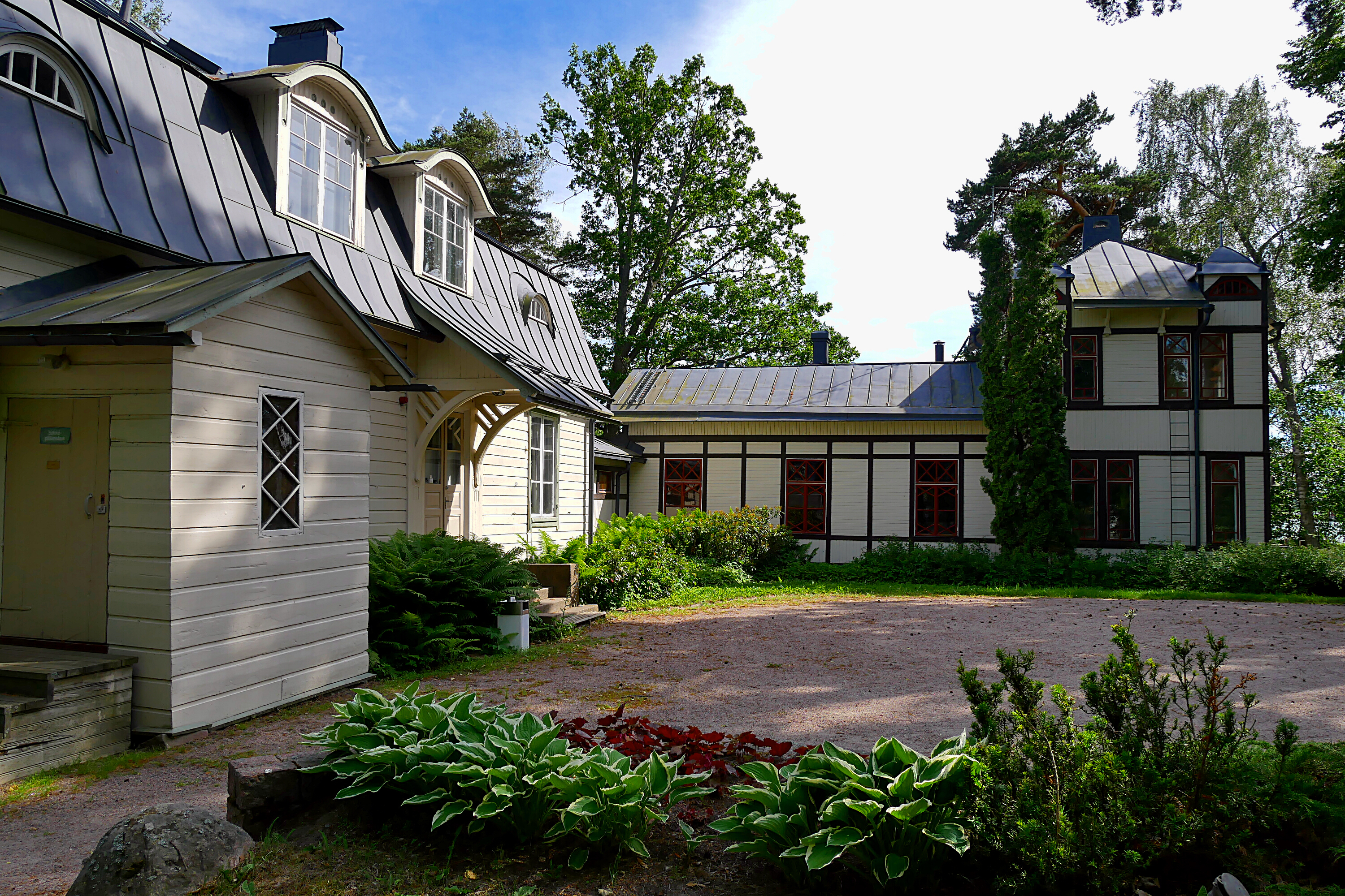 Villa Rulludd, Espoo, Finland